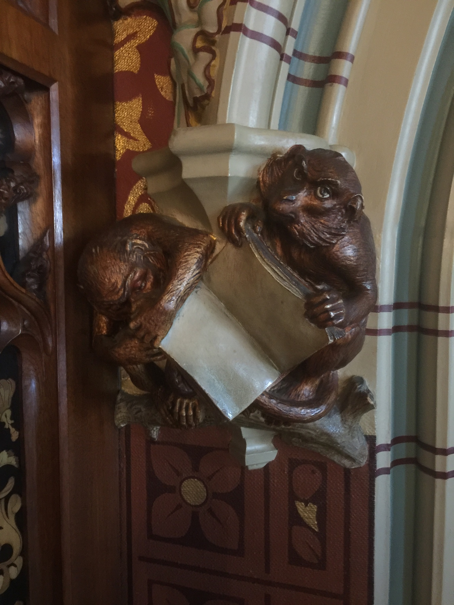 Monkeys puzzling over the Book of Life. The Library, Cardiff Castle. William Burges’s comment on Darwin’s Theory of Evolution.